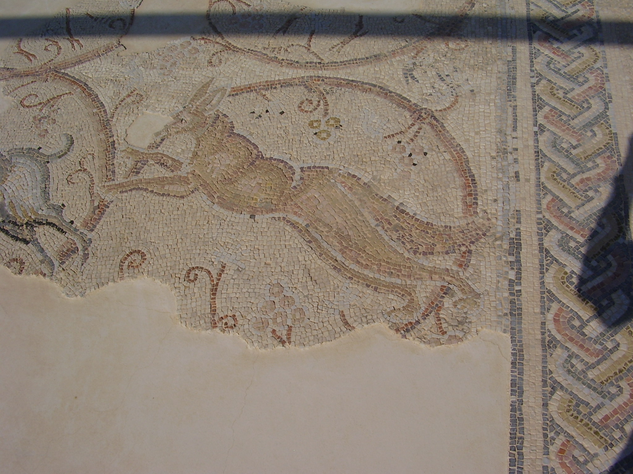 Mosaic from the ancient synagogue in Gaza